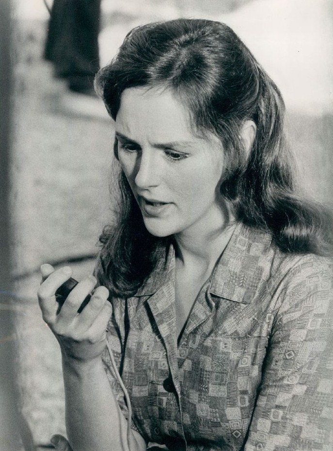 Bonnie Bedelia in Message To My Daughter (1973)